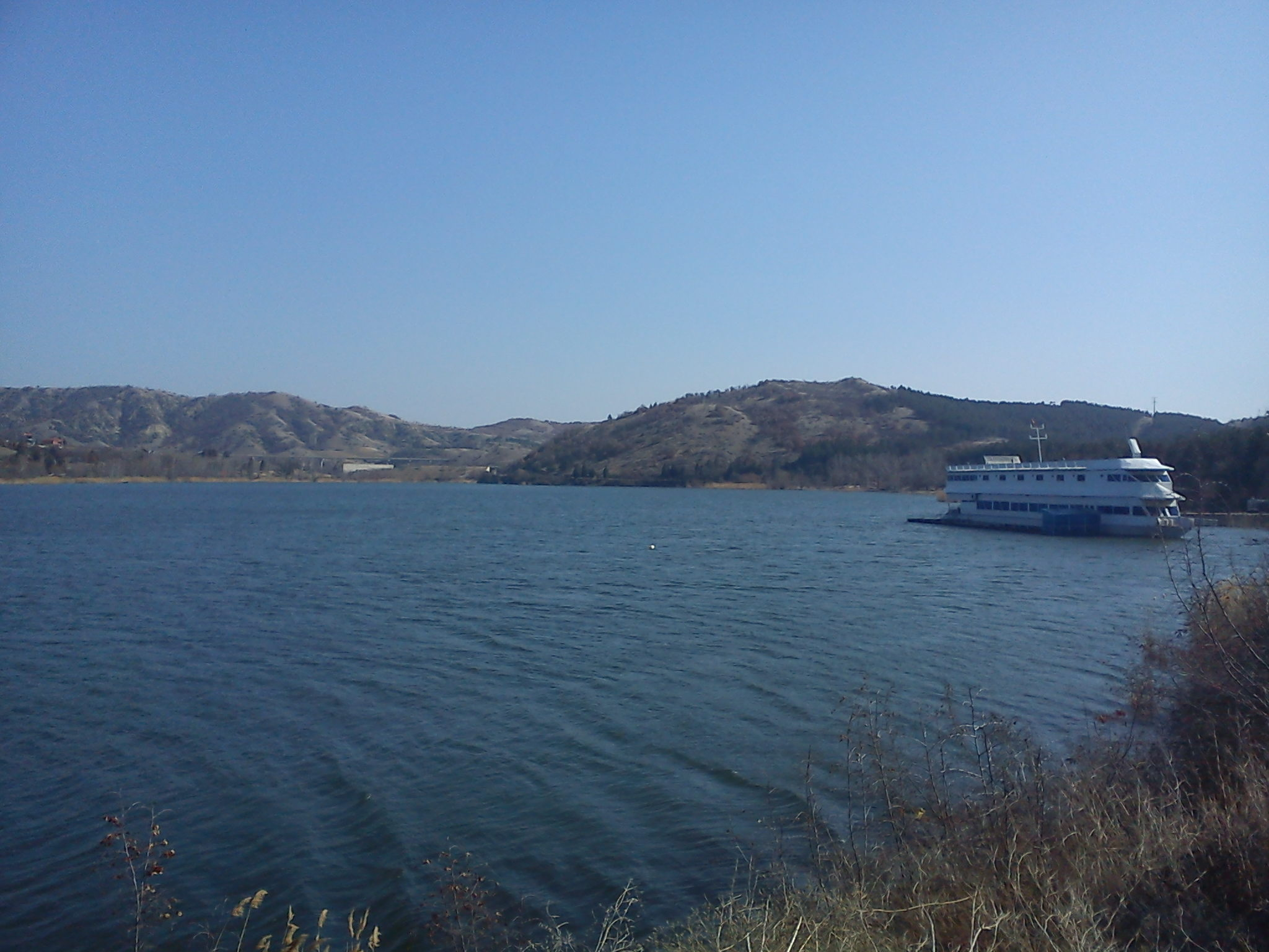 Veles Lake, Macedonia